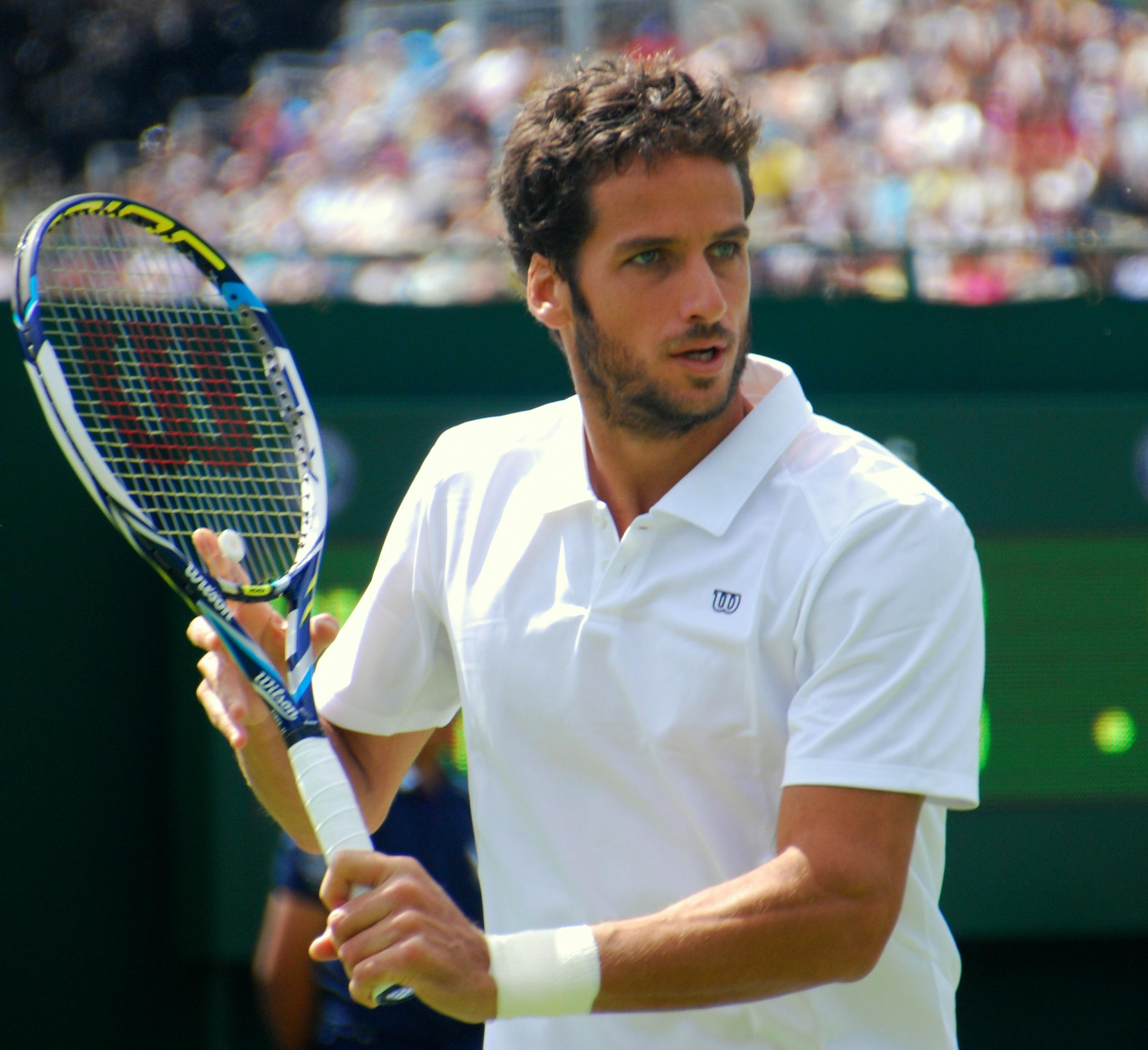 Day 3 of Wimbledon 2014.